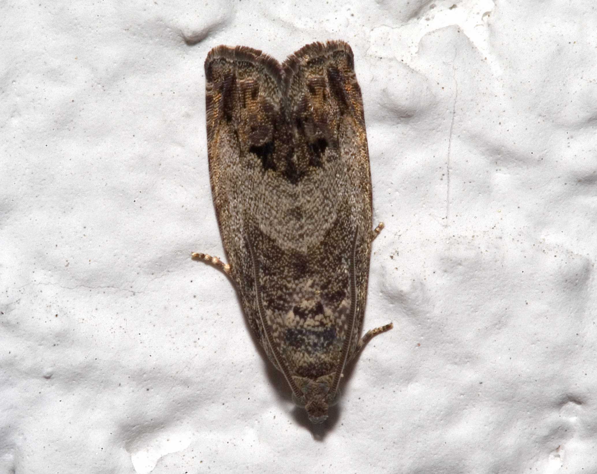 Please report references to kulacgmx.at.